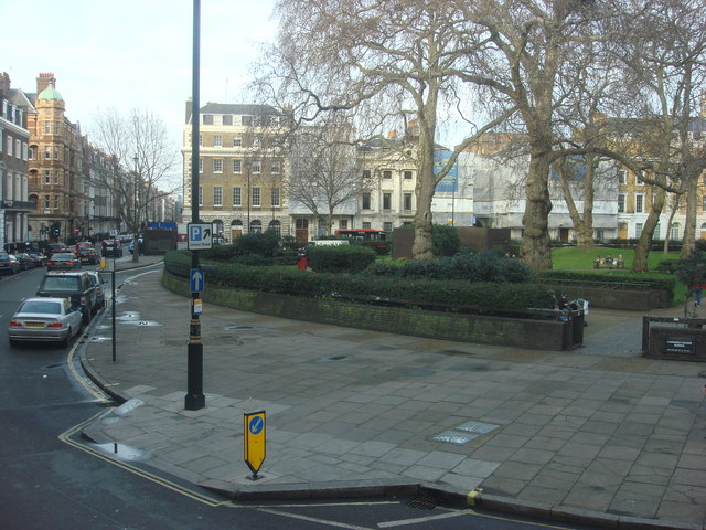 Cavendish Square